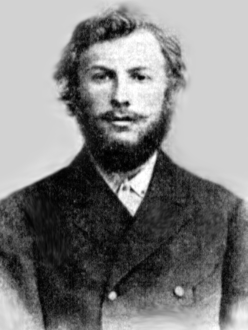 Russian revolutionary Nikolay S. Klestov